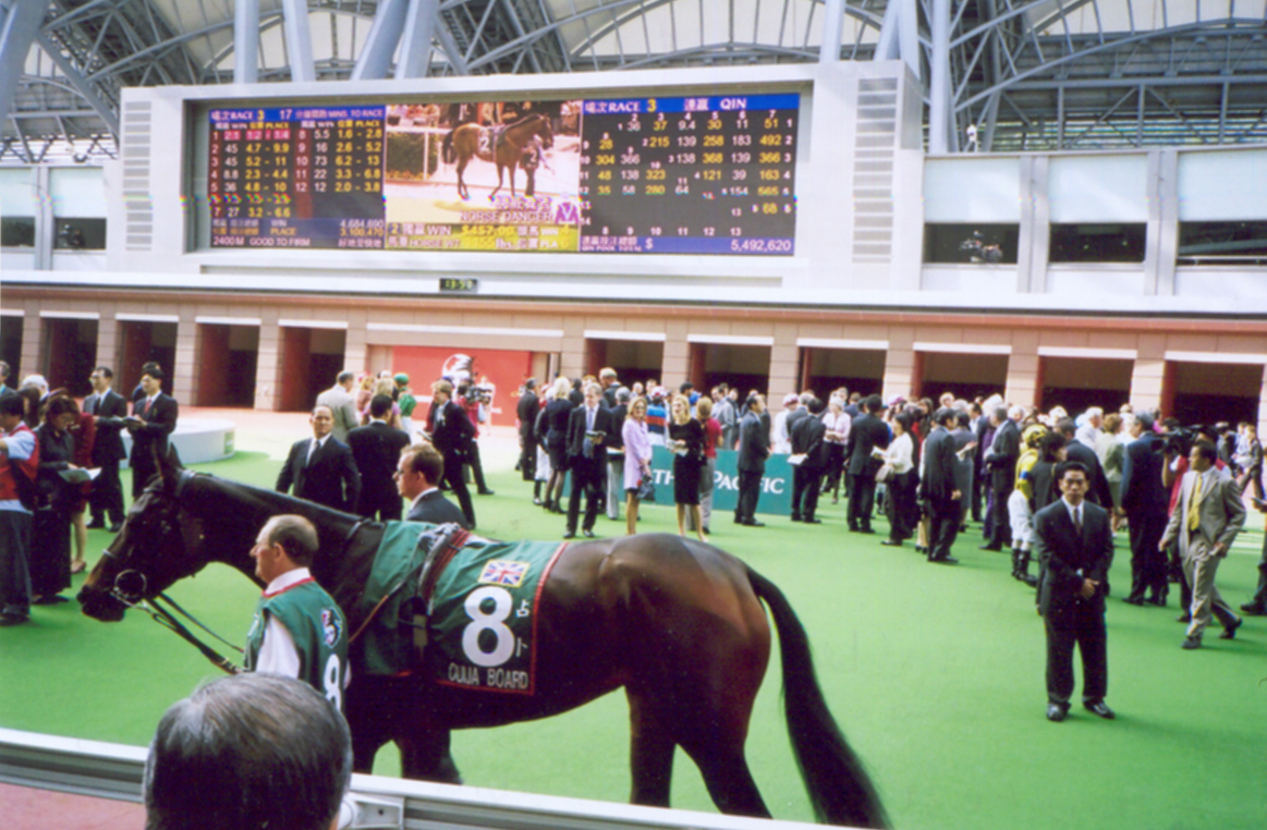 ONCE IN A LIFE-TIME RACEHORSE:-"Ouija Board" foaled in 2001 and owned by Lord Edward Stanley ,the Nineteenth Earl of Derby ,at the "Sha-Tin" race-course paddock in Hong-kong(Sunday 11-12-2005) before winning the "Cathay Pacific Hongkong Vase".The "DERBY" got its name from the 12th Earl of Derby who won the "Trademark name" by toss of a coin with Sir Charles Bunbury in 1779 in England."Ouija Board" won a total of 7 group one races and 3,500,000 English Sterling in prize money until retirement as a broodmare to Lord Derby's "Stanley stud farm".